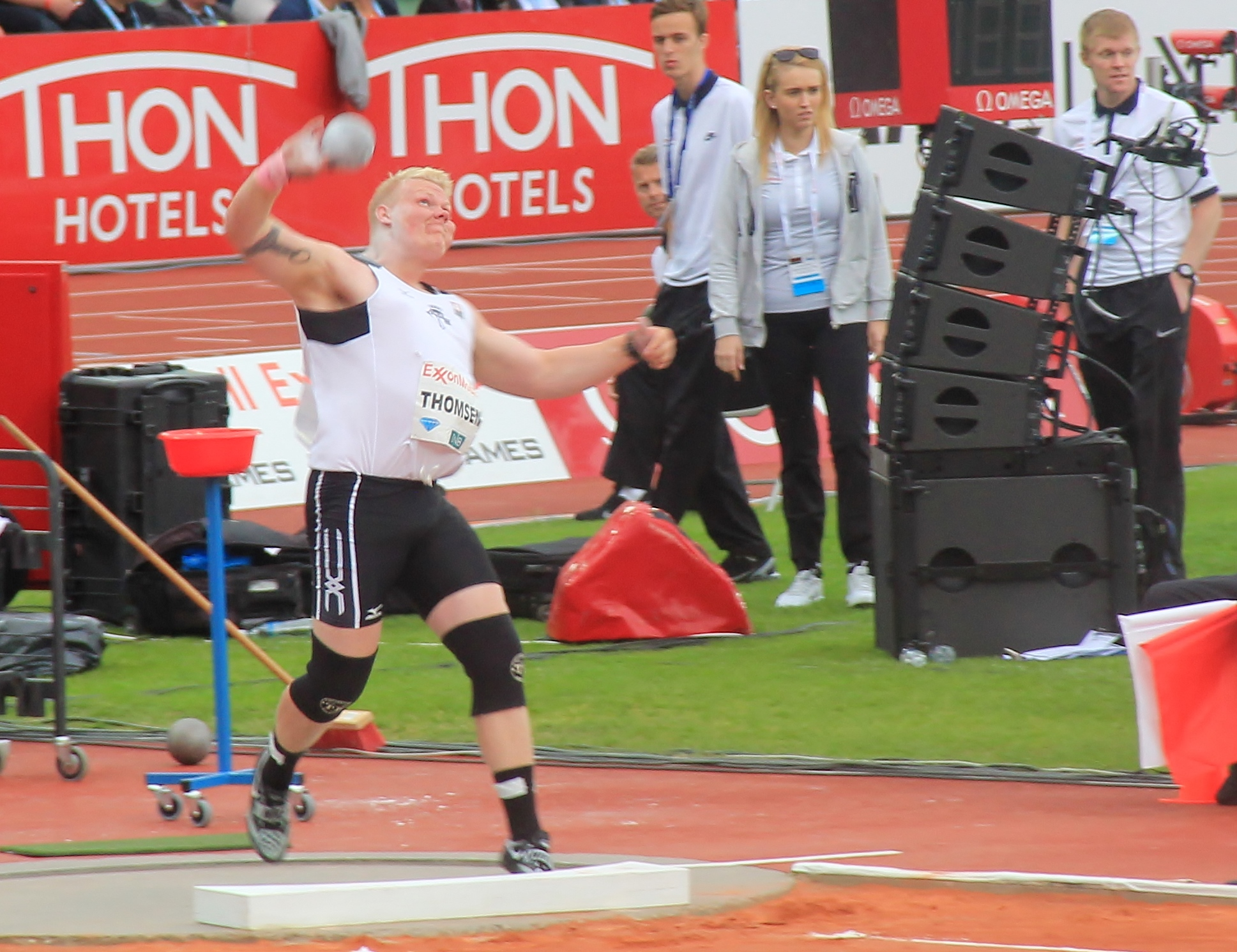 Marcus Thomsen at the 2016 Bislett Games